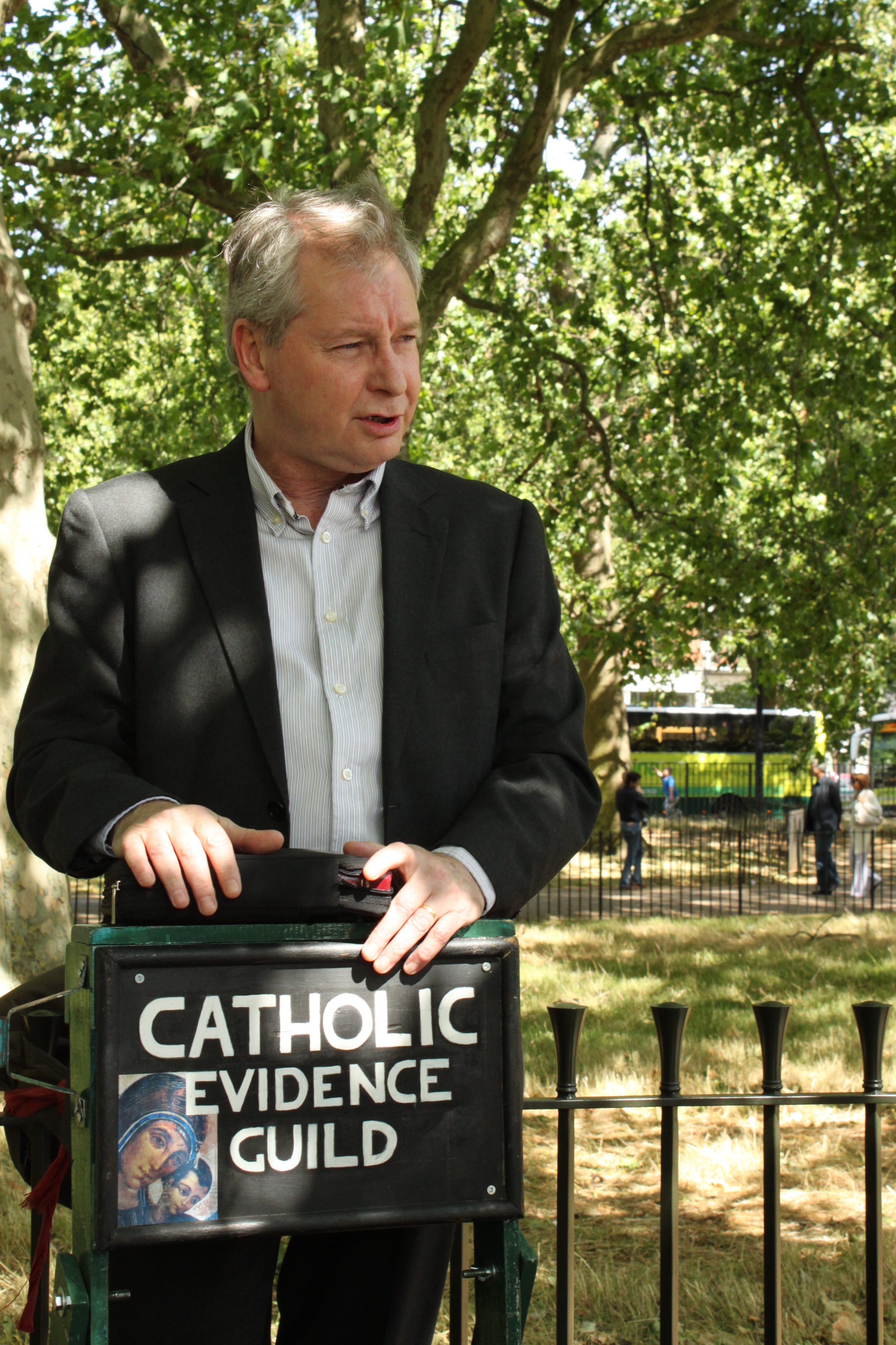 A picture of the Catholic Evidence Guild at Speaker's Corner in Hyde Park